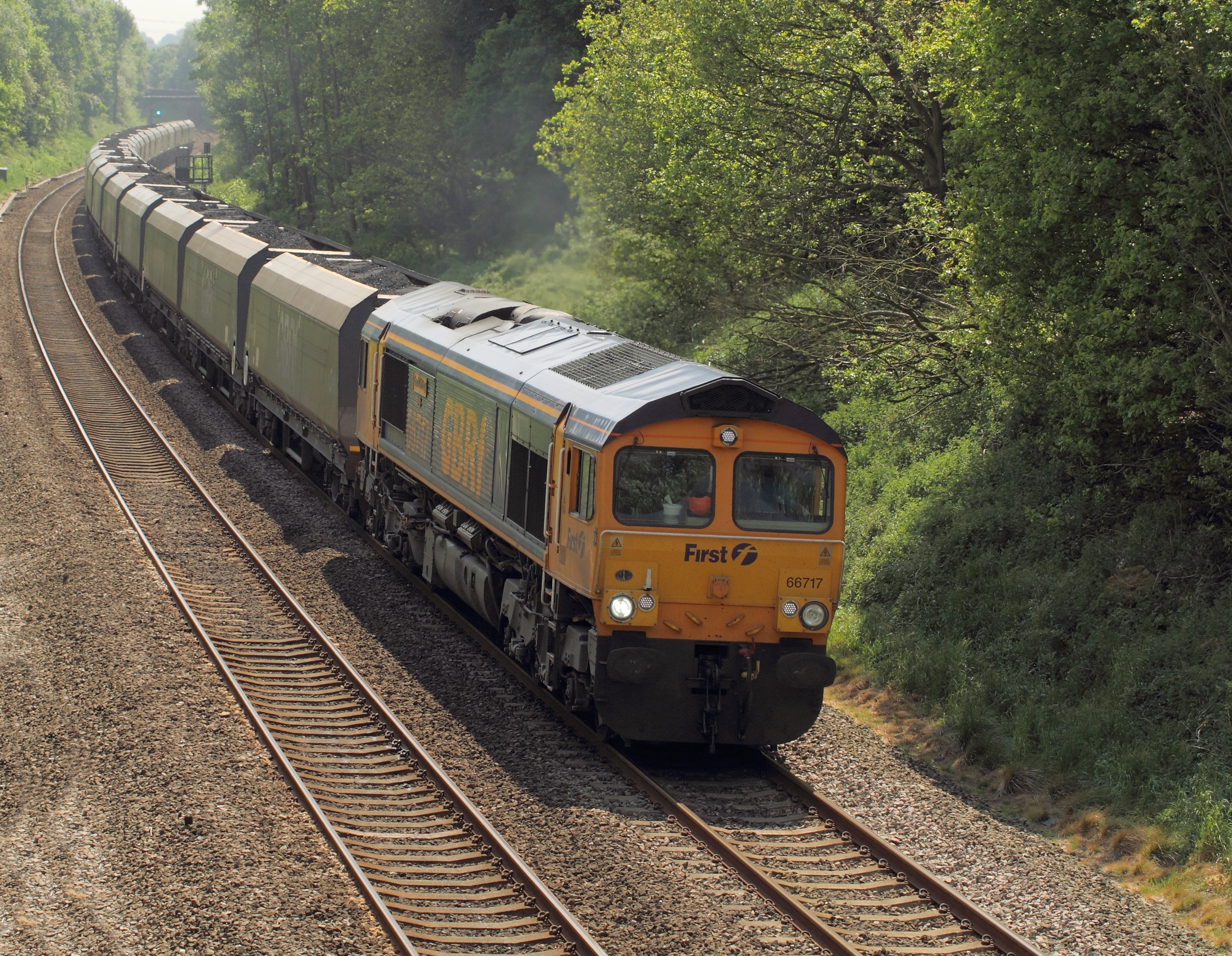 66717 "Good Old Boy" passes Ogston working 6N67 Daw Mill - Drax Power Station Still carrying the 1A , Willesden shed plate